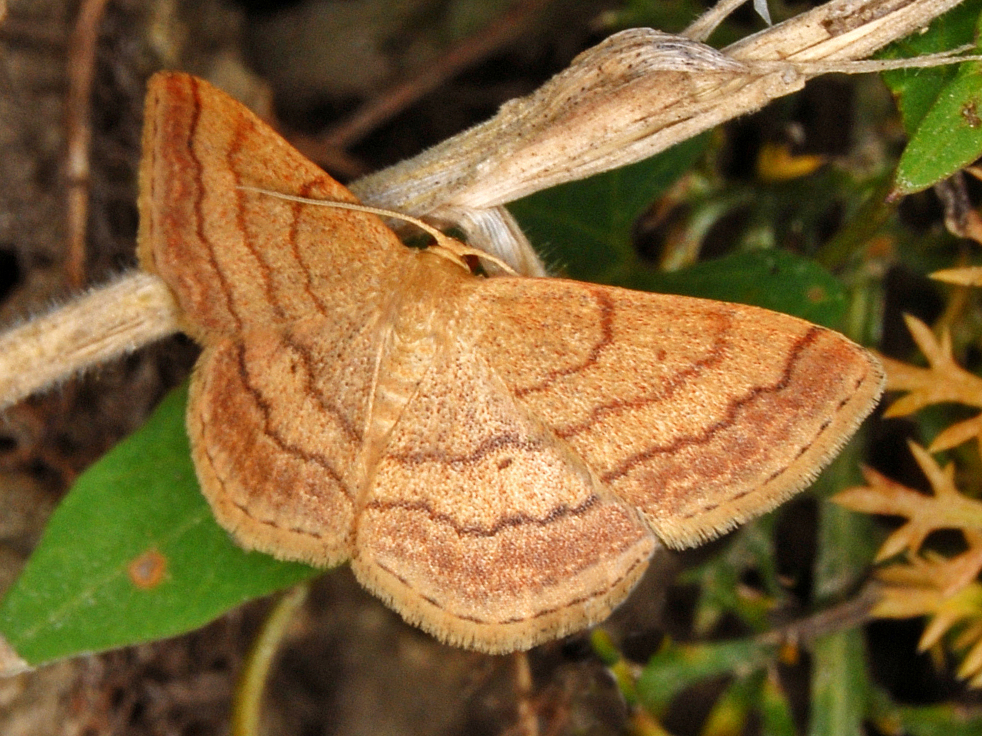 Scopula rubiginata. Cerreto Ratti, Alessandri, Italy